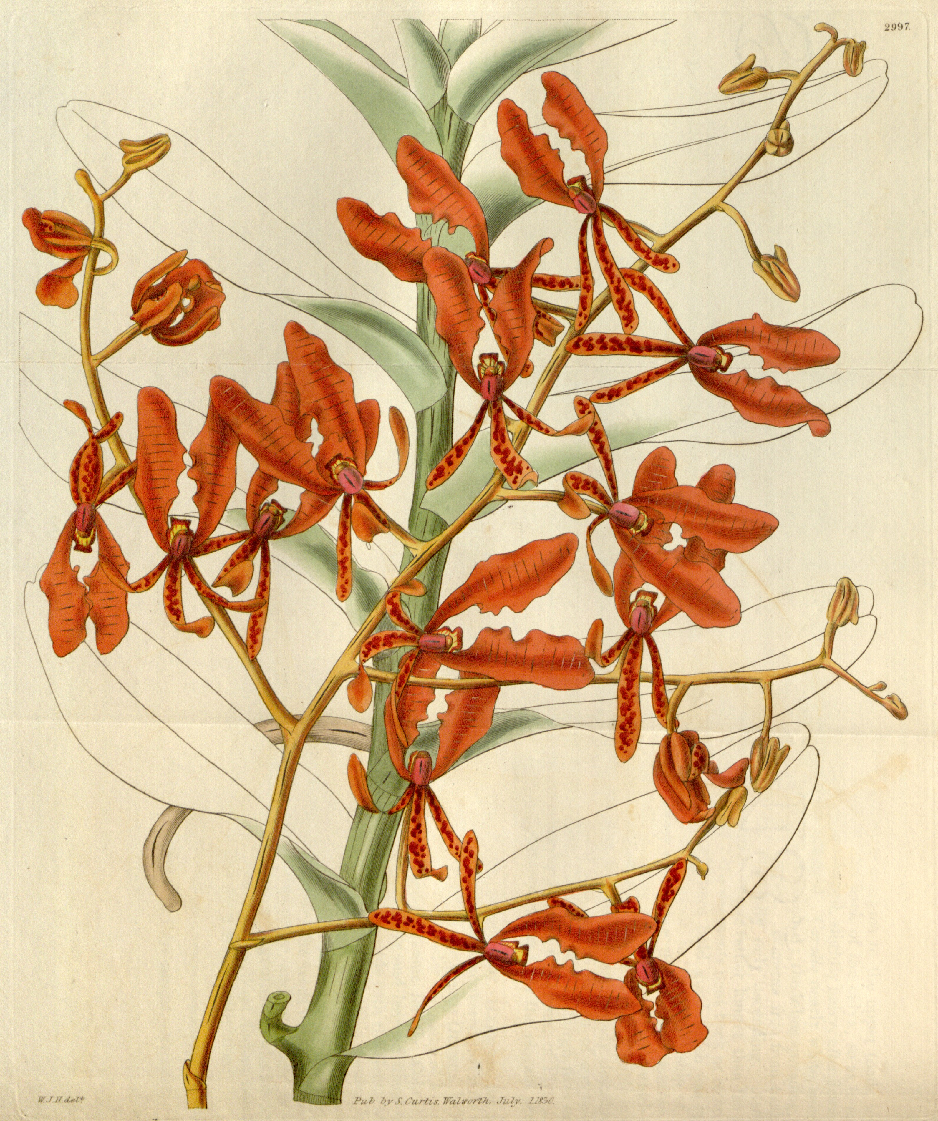 Illustration of Renanthera coccinea